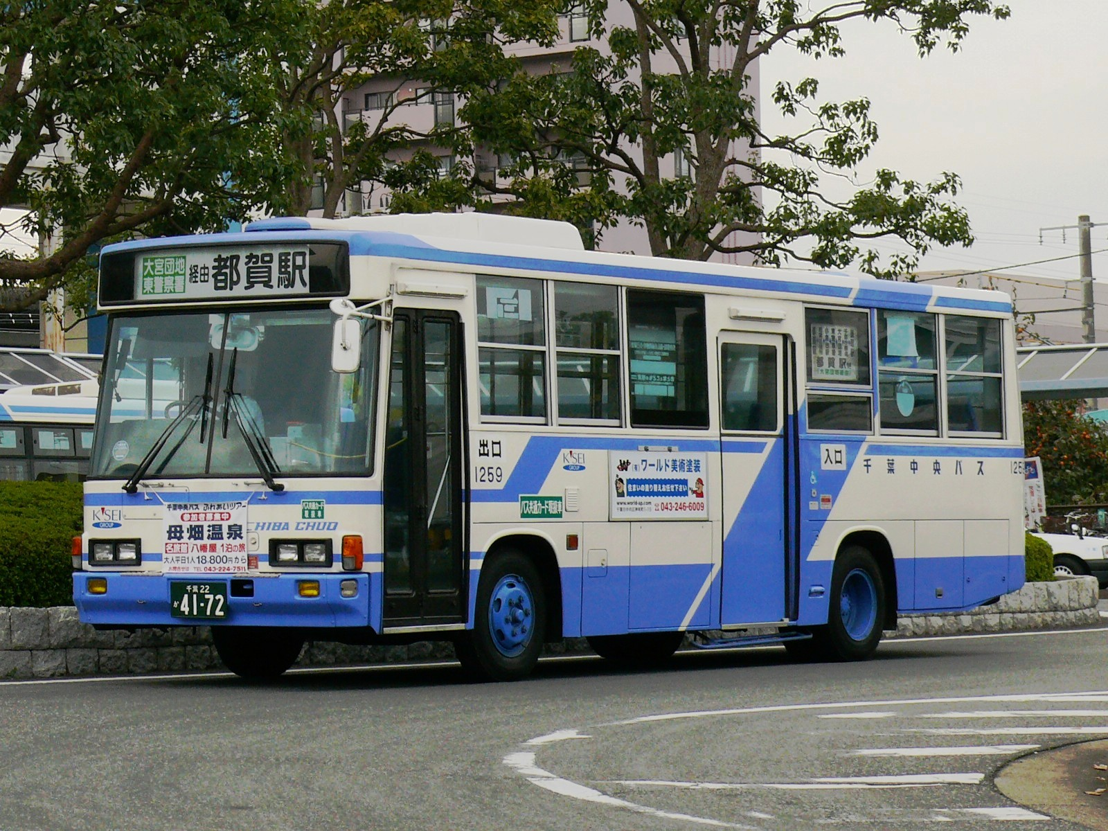 Bus of Chiba-chuo bus(Tsuga line](Japan, Chiba City). It takes a picture in the bus stop in front of Kamatori Station. 千葉中央バスの路線バス(都賀線)。 鎌取駅前バス停にて撮影。 このバスはいすゞ・ジャーニーK(KKC-LR333J)の車両である。